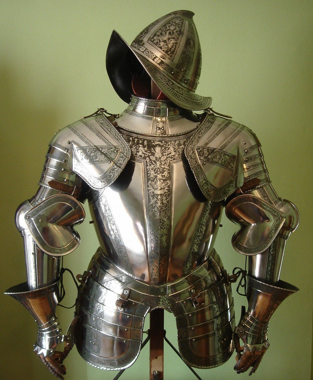 Spanish Conquistador plate armor